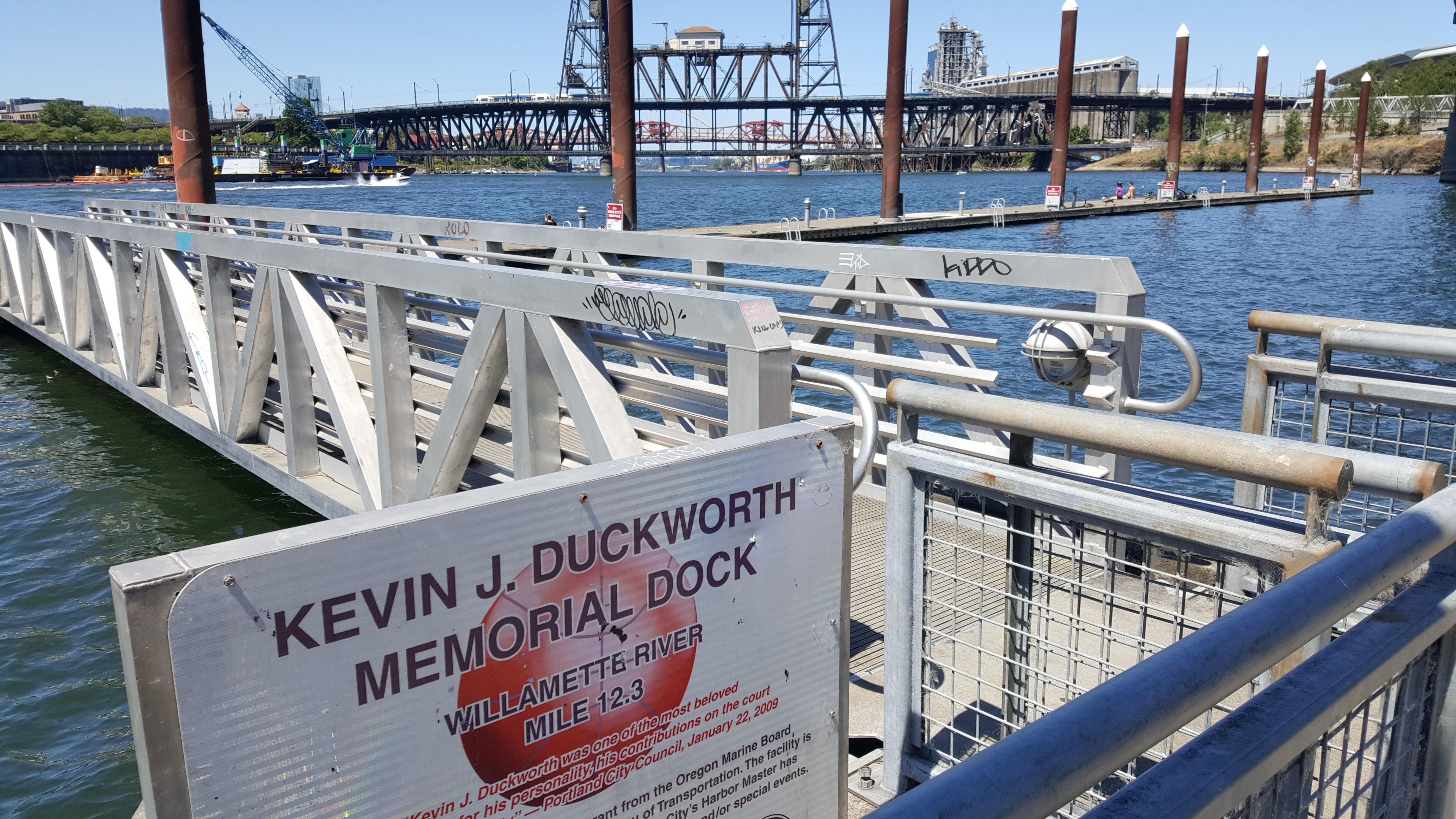 Portland, Oregon, July 25, 2020